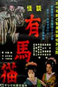 Japanese movie poster for 1937 Japanese film Ghost Cat of Arima (Arima neko).